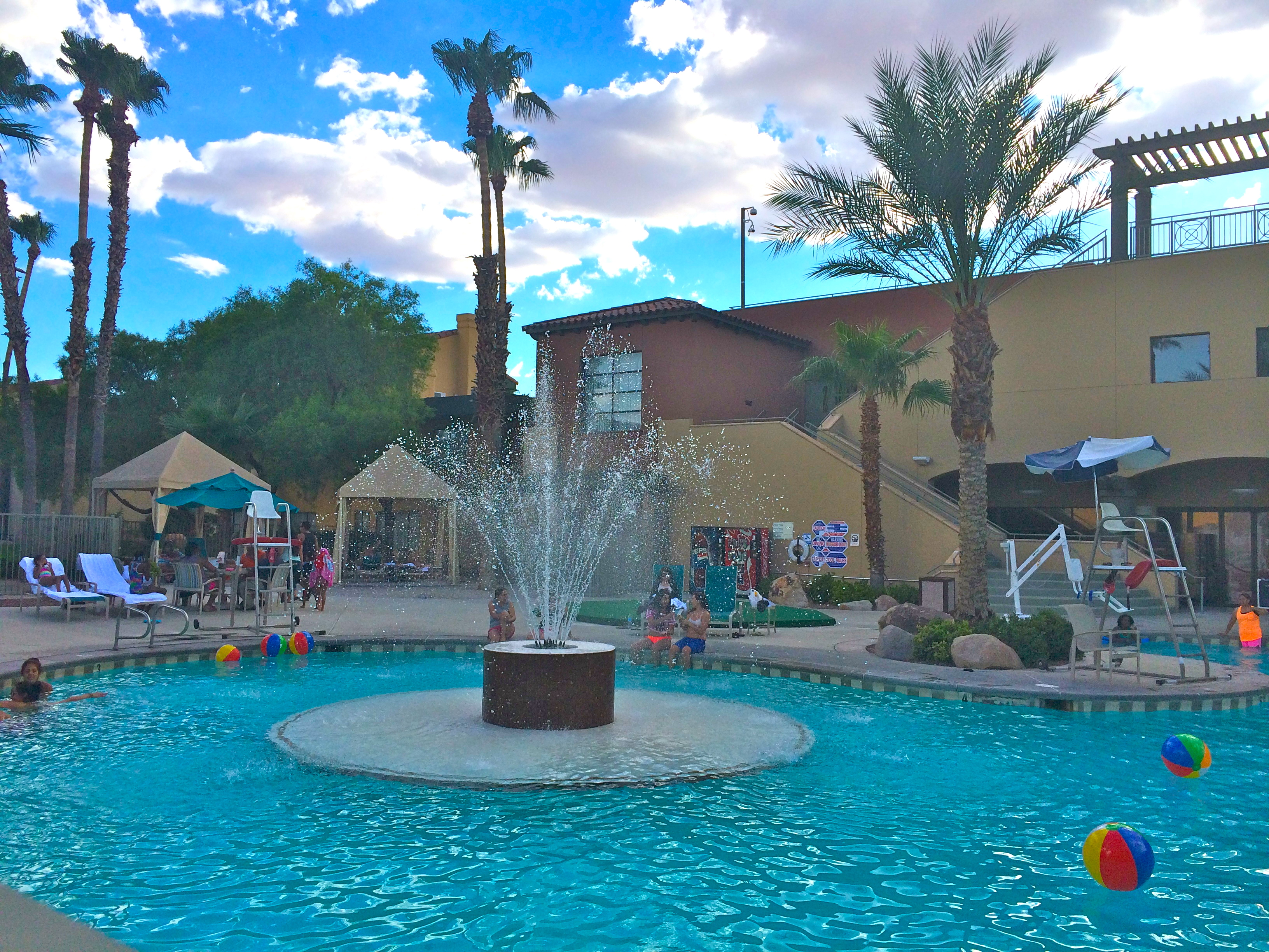 Pool at the Alexis Park hotel in Las Vegas.